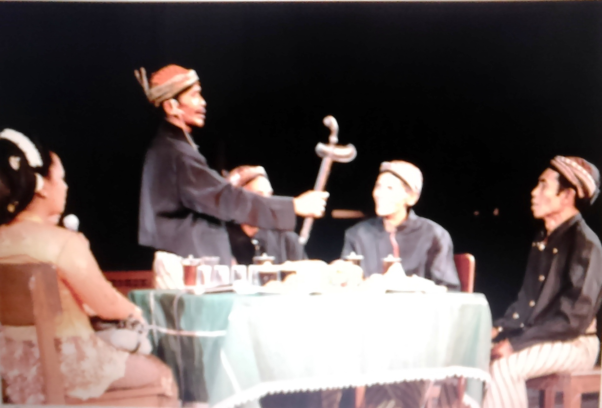 Theater of Wayang Jemblung in Banyumas